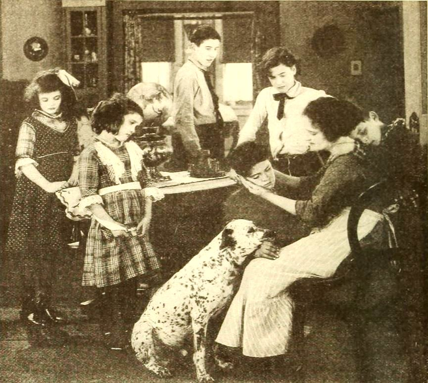 Still with Mary Carr in the American film Over the Hill to the Poorhouse (1920), with her actual children Maybeth, Rosemary, Stephen, and Thomas. From page 72 of the March 1921 Photoplay magazine.